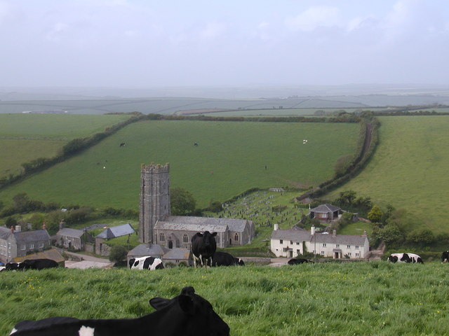 Chivelstone. A small settlement comprising a farm and six houses with a church, which serves many of the Hamlets to the East, hence the extensive graveyard.